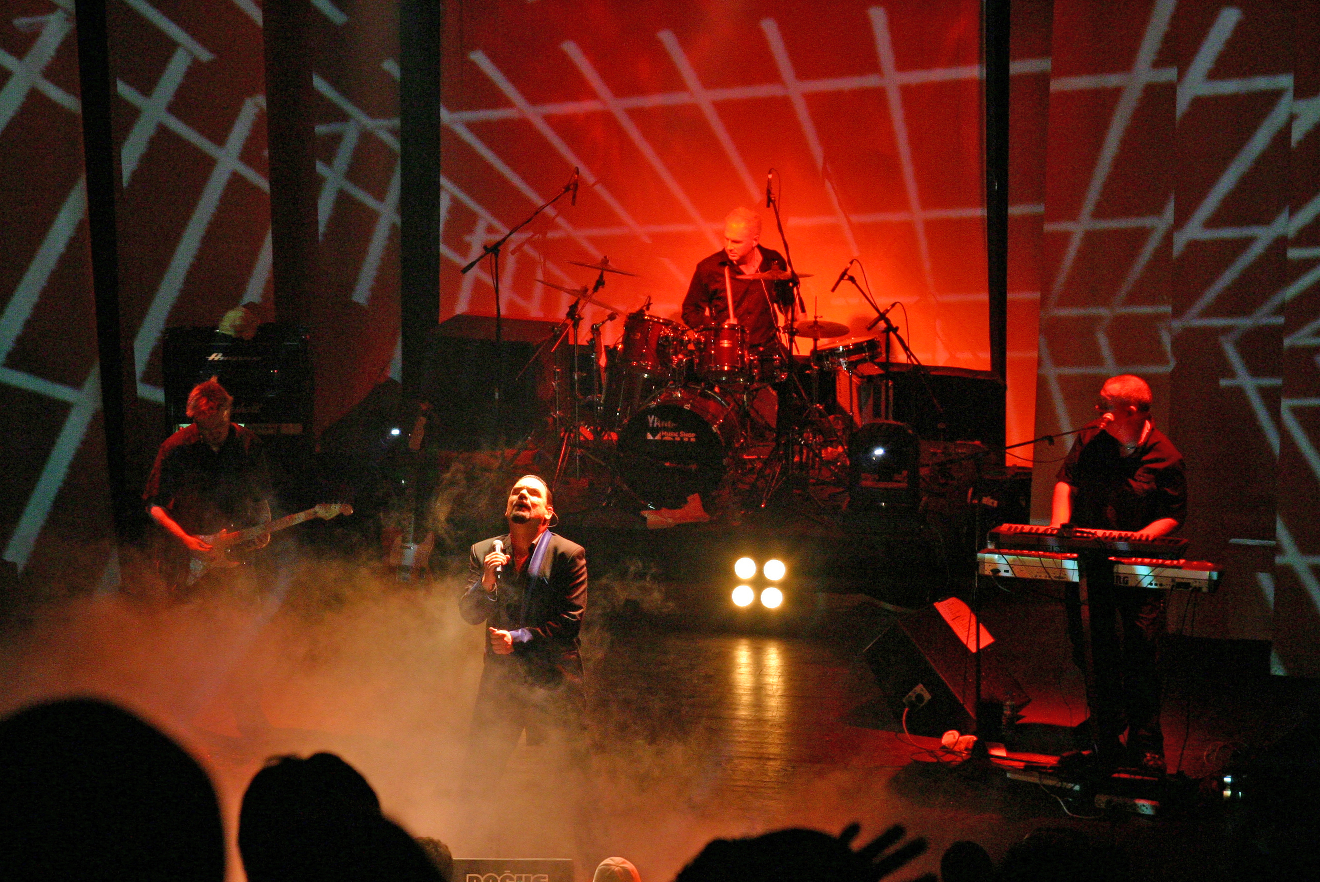 Alphaville on stage in 2005